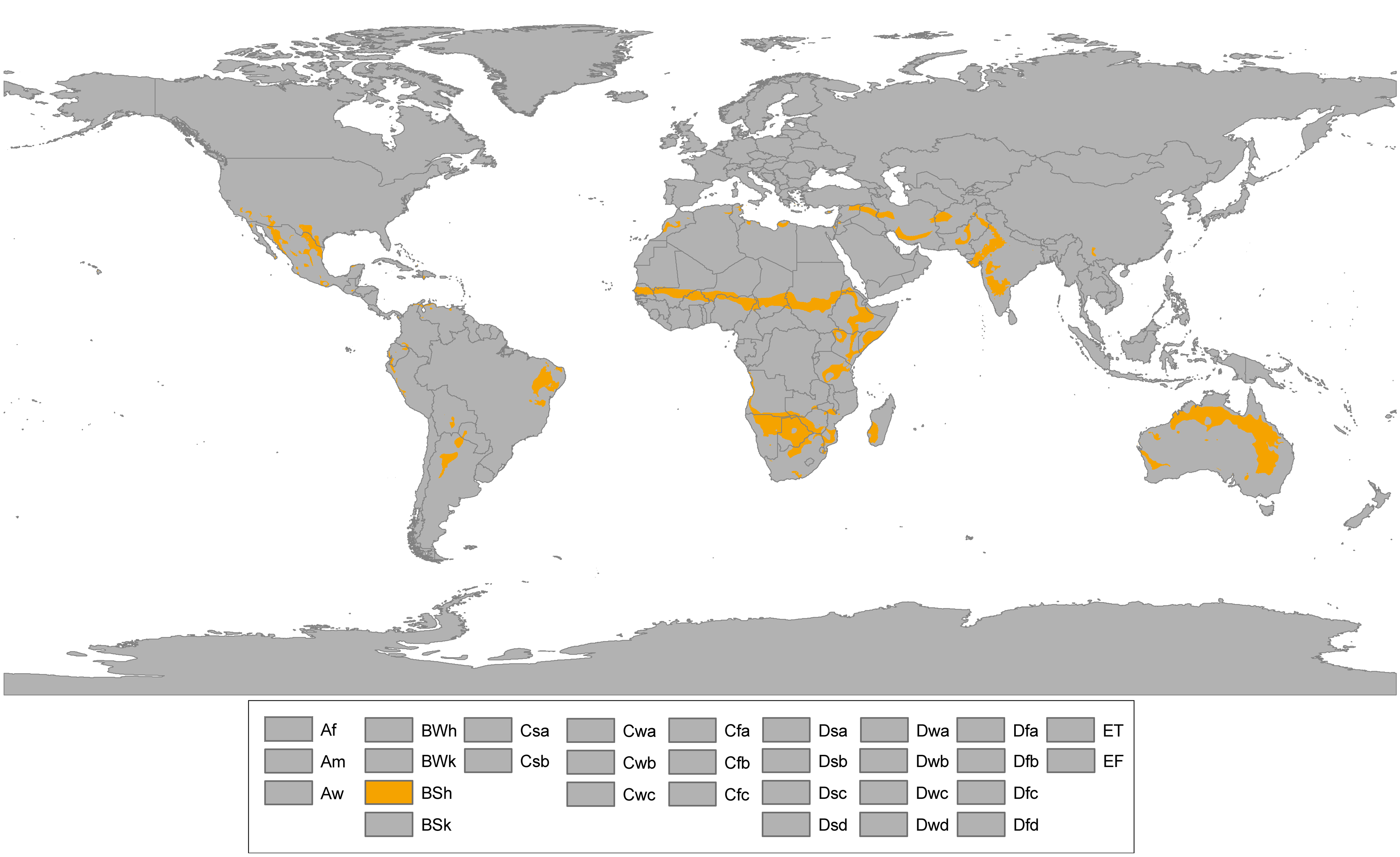 Updated world map of the Köppen-Geiger climate classification. Hot semi-arid climate (BSh)